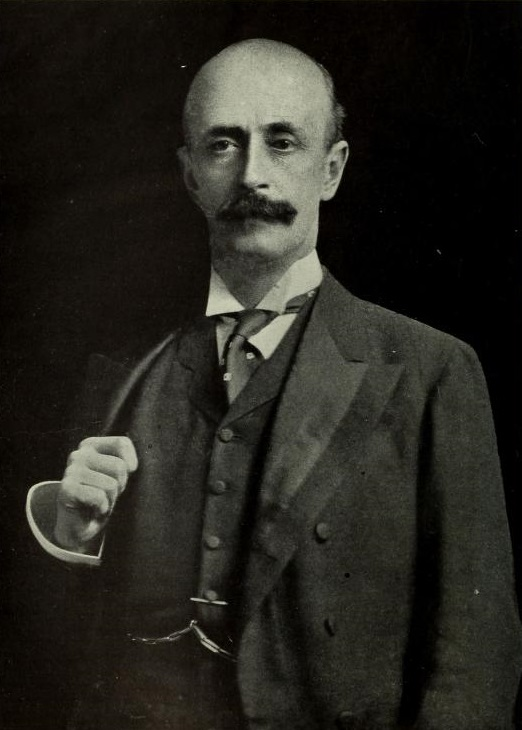 Portrait of Albert Grey, 4th Earl Grey